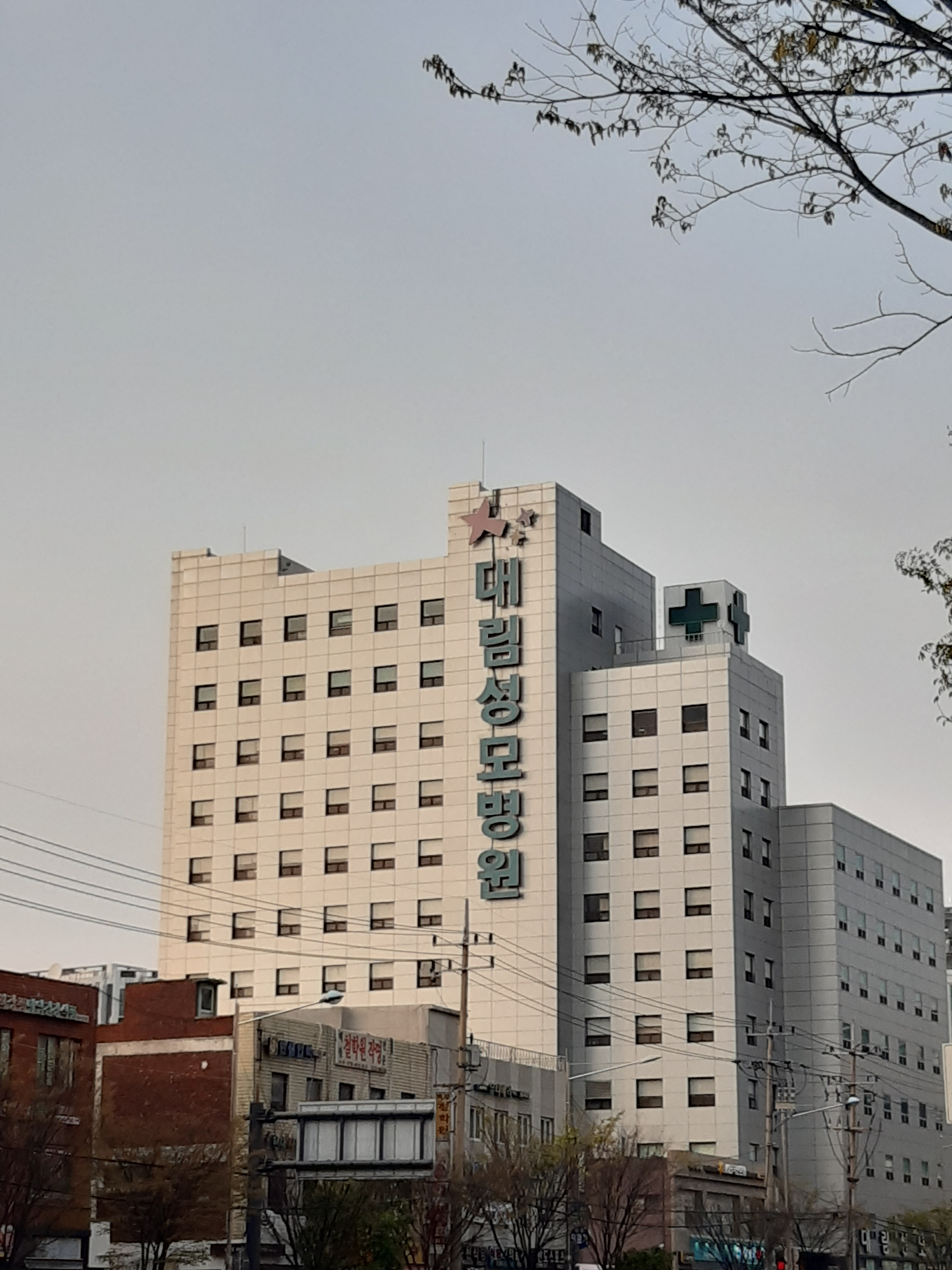 Daerim Saint Mary's Hospital building